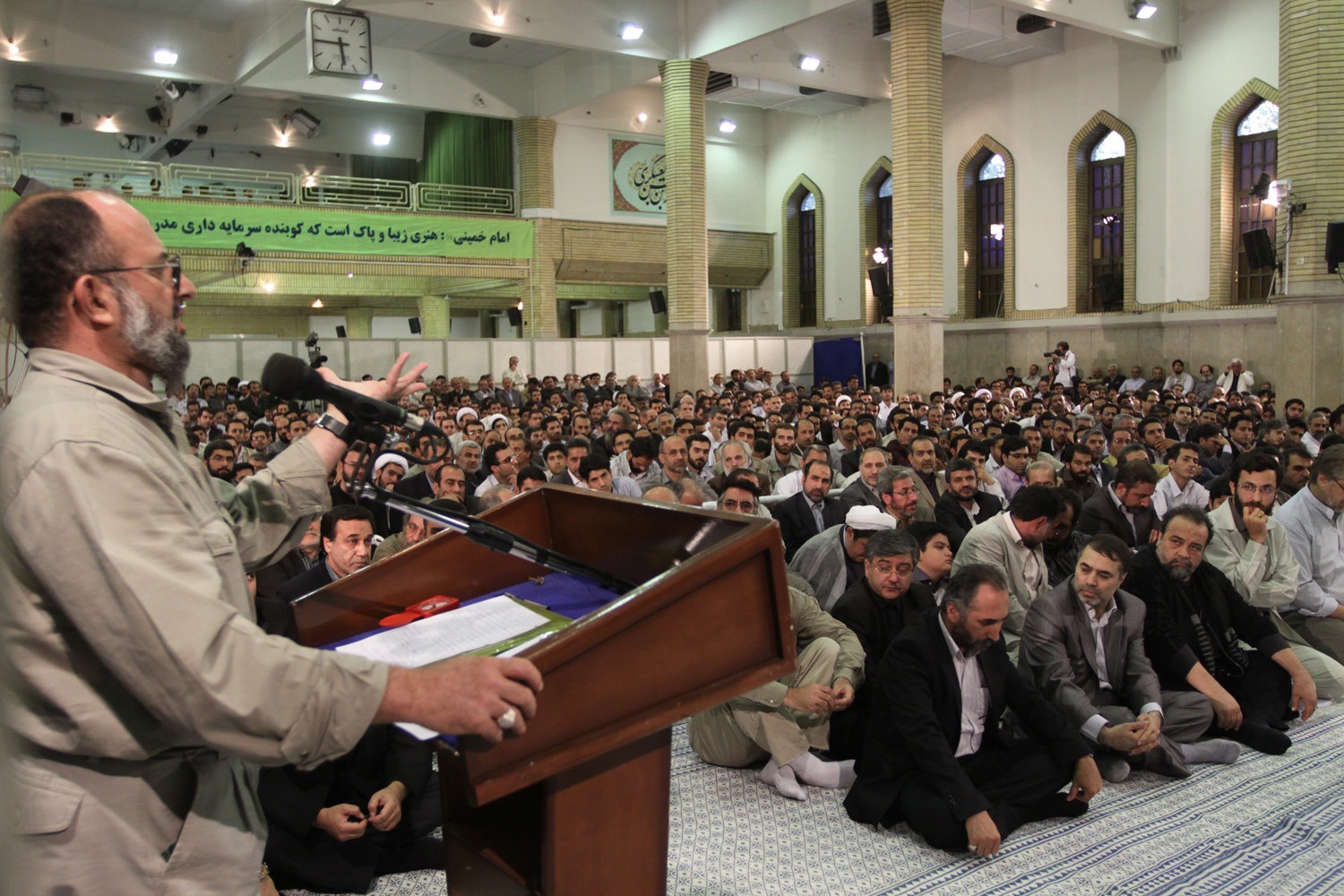 Activists of the Holy Defense Art meeting with Ali Khamenei